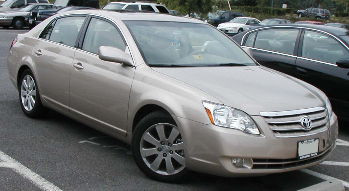 2005-2006 Toyota Avalon photographed in USA.